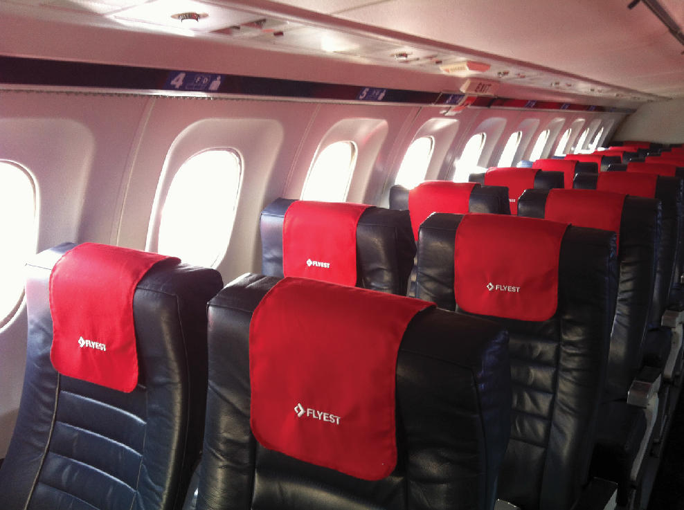 Interior of FLYEST's 33-seat SAAB 340 aircraft